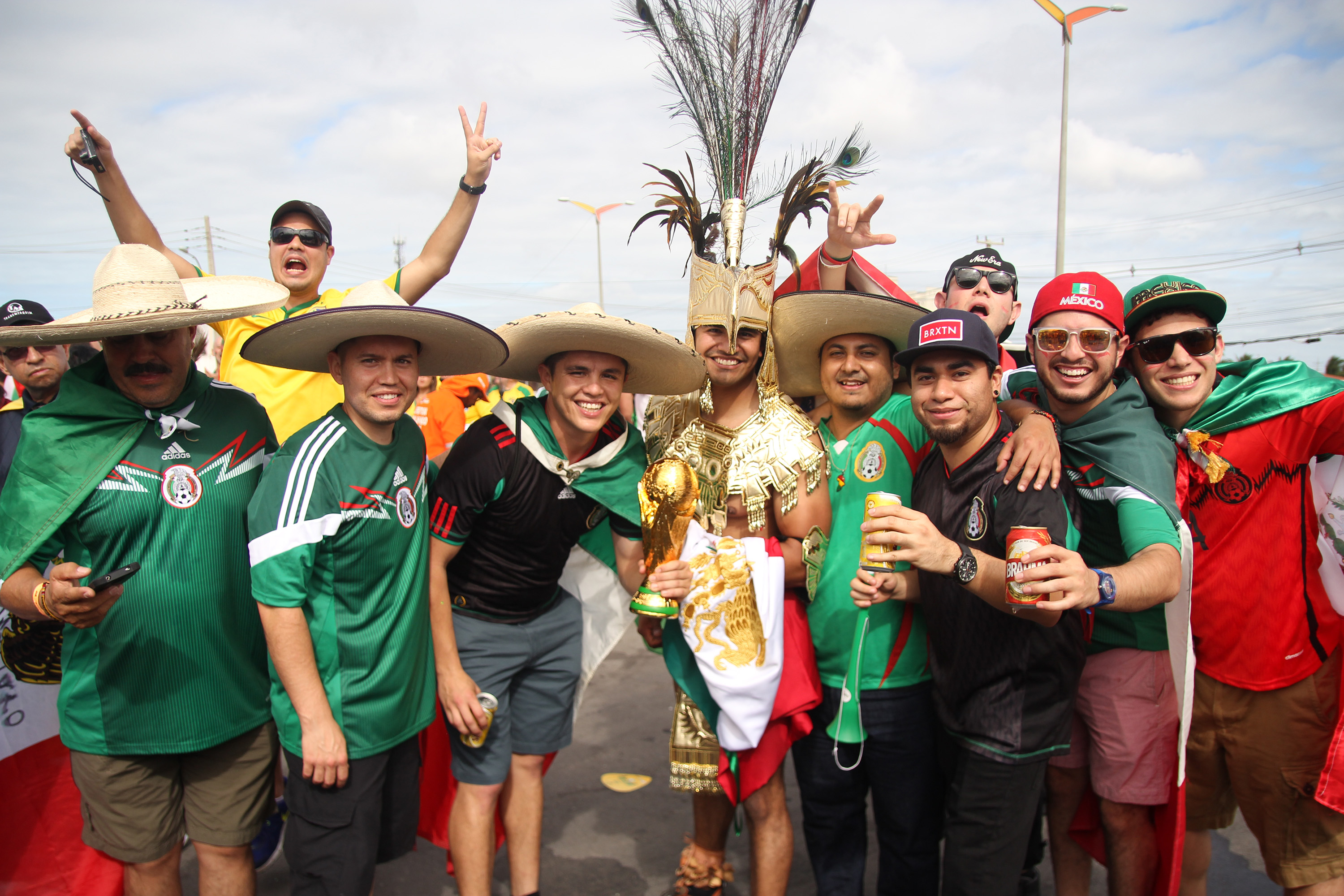 Brazil and Mexico match at the FIFA World Cup 2014-06-17